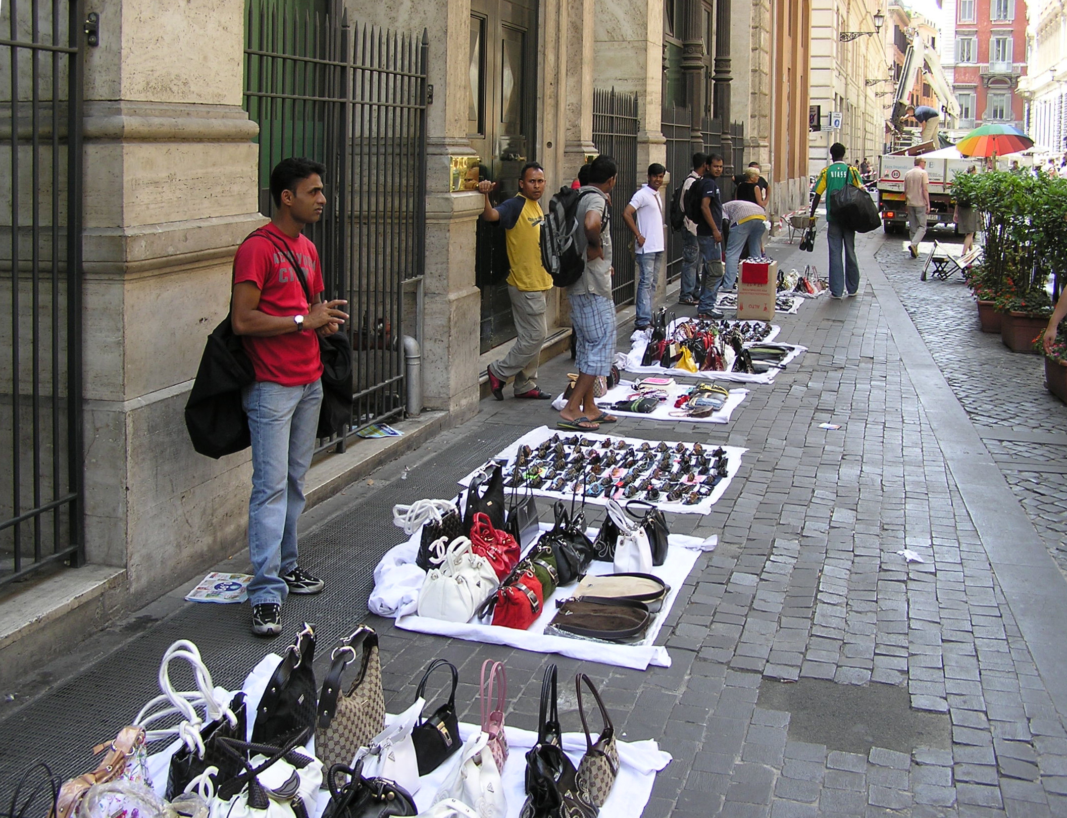 Street hawkers selling bags and sunglasses in central Rome (via delle Muratte)(Italy).